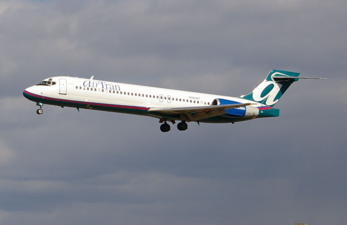 I took this photo of an Airtran Airways Jet landing at Baltimore-Washington International Thurgood Marshall Airport on March 4, 2007 from the airplane observation area on airport grounds. This image is a crop of a photo taken with a Pentax K100D digital SLR camera. MamaGeek (talk/contrib) 15:49, 22 March 2007 (UTC)